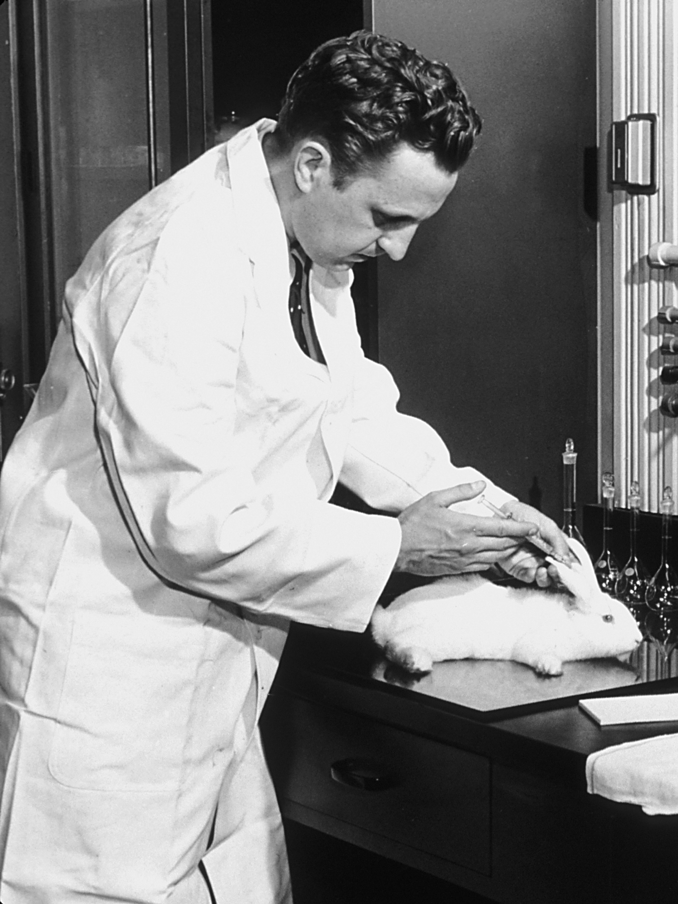 Howard Skipper, now retired from Southern Research Institute in Birmingham, Alabama, explained how chemotherapy could work.